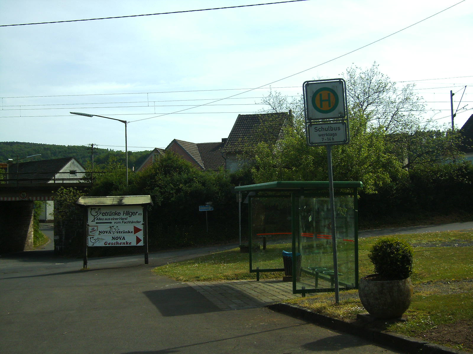 Bus stop Opperzau in german municipality Windeck